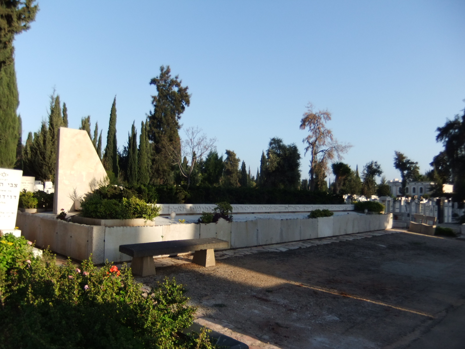 Memorial of El Al Flight 402 in Kiryat Shaul Cemetery, Tel Aviv, Israel